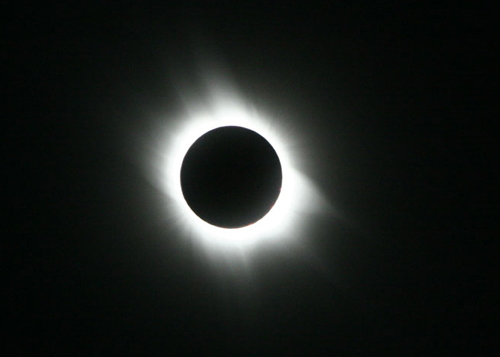 This picture of the March 2006 total solar eclipse was taken by Zeinab Salarvand near Konya, Turkey. She agreed to release it through Wikimedia Commons, subject to GFDL and Creative Commons licenses.